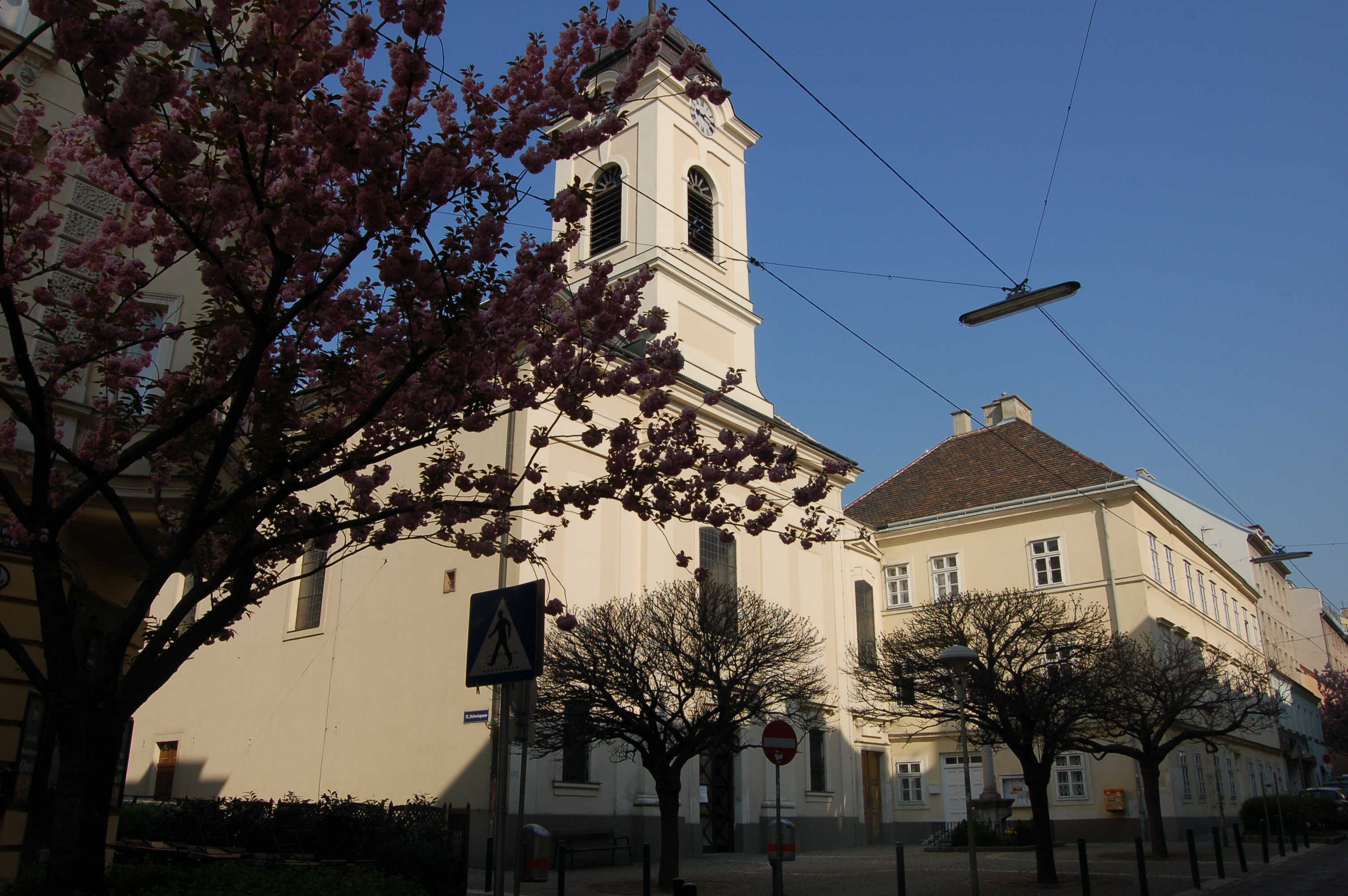 Most Sacred Trinity parish church, Reindorfgasse 21, Vienna's 15th district